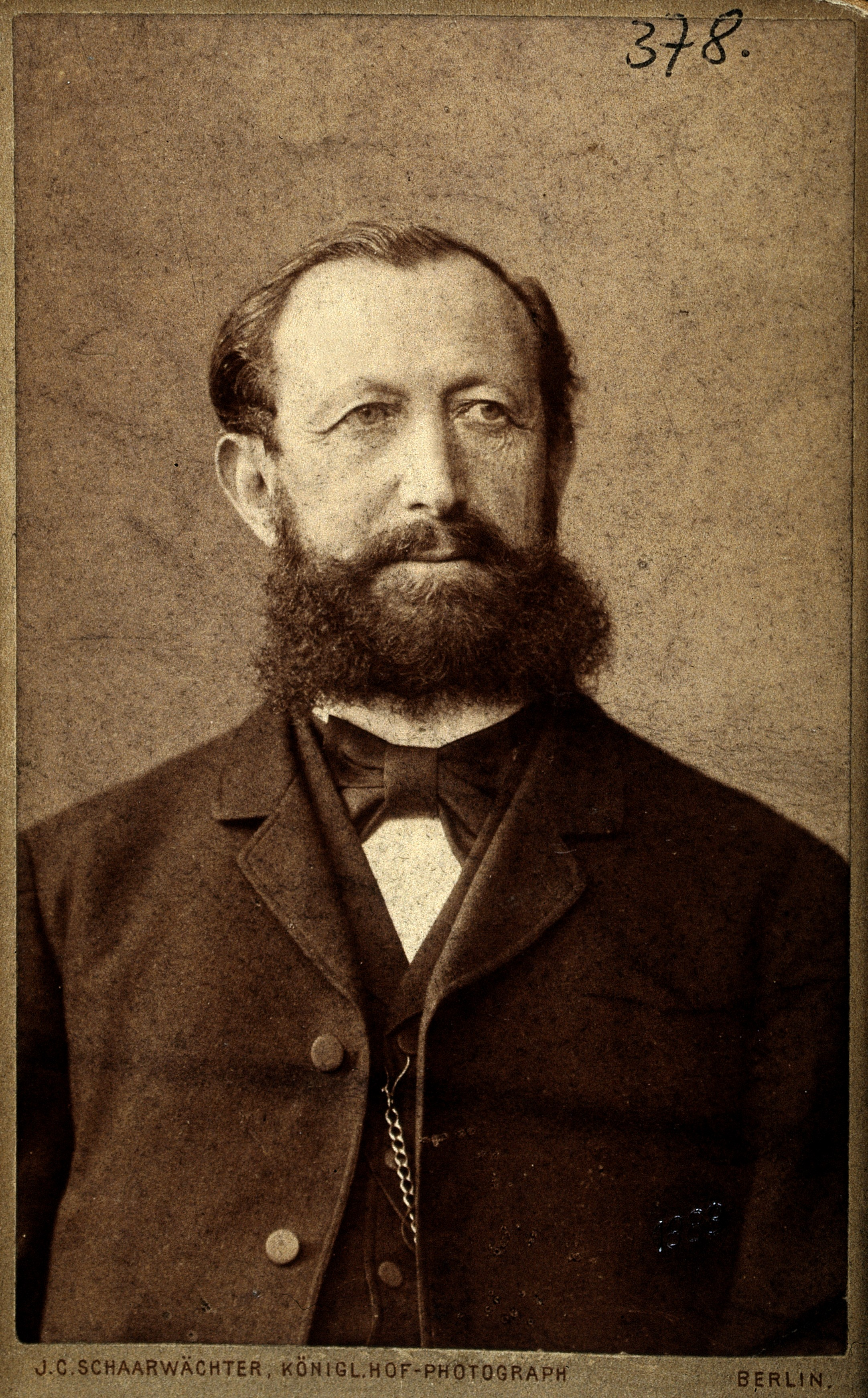 Hermann Senator. Photograph by J.C. Schaarwächter. Iconographic Collections Keywords: portrait photographs